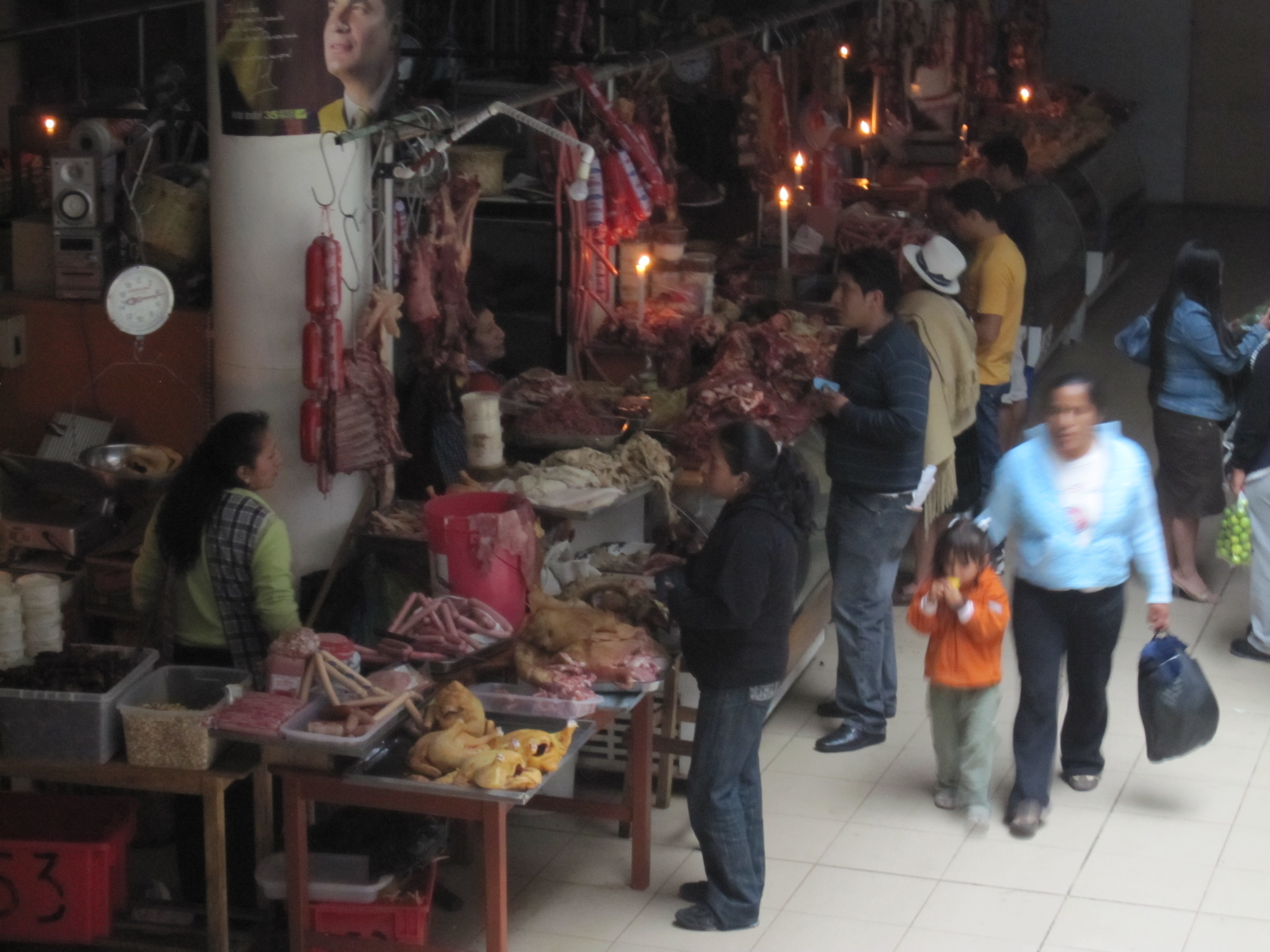 Shopping by candle light in a Cuenca market, during a power cut (see w:2009 Ecuador electricity crisis)